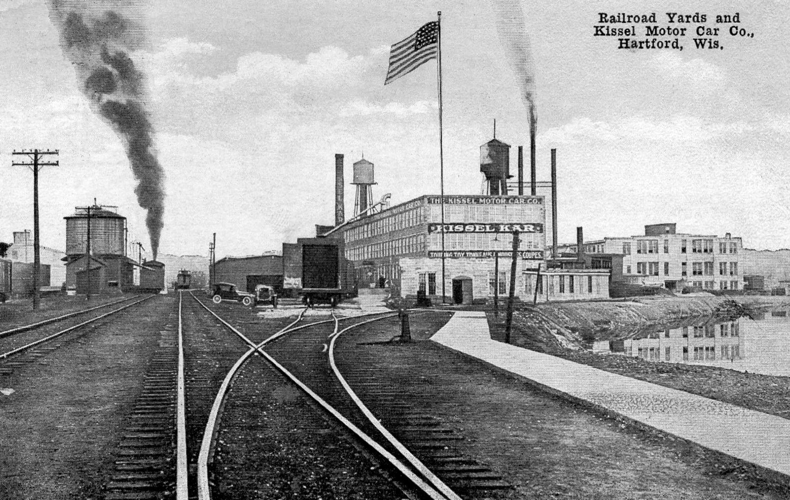 Litho postcard photo of the Kissel Motor Car Company in Hartford, Wisconsin.